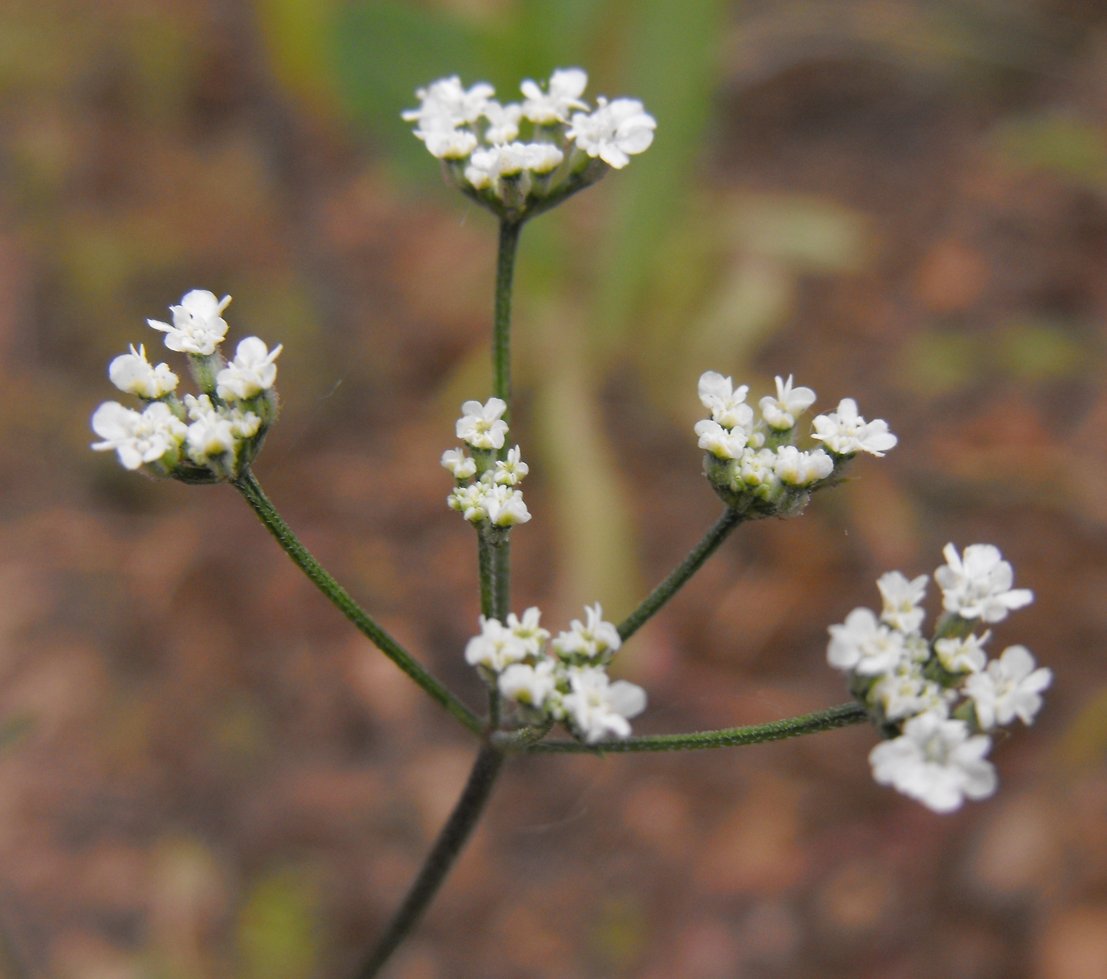 Torilis arvensis — Common hedge parsley, introduced invasive species. At the Blue Sky Ecological Reserve in the Laguna Mountains, Poway, California.